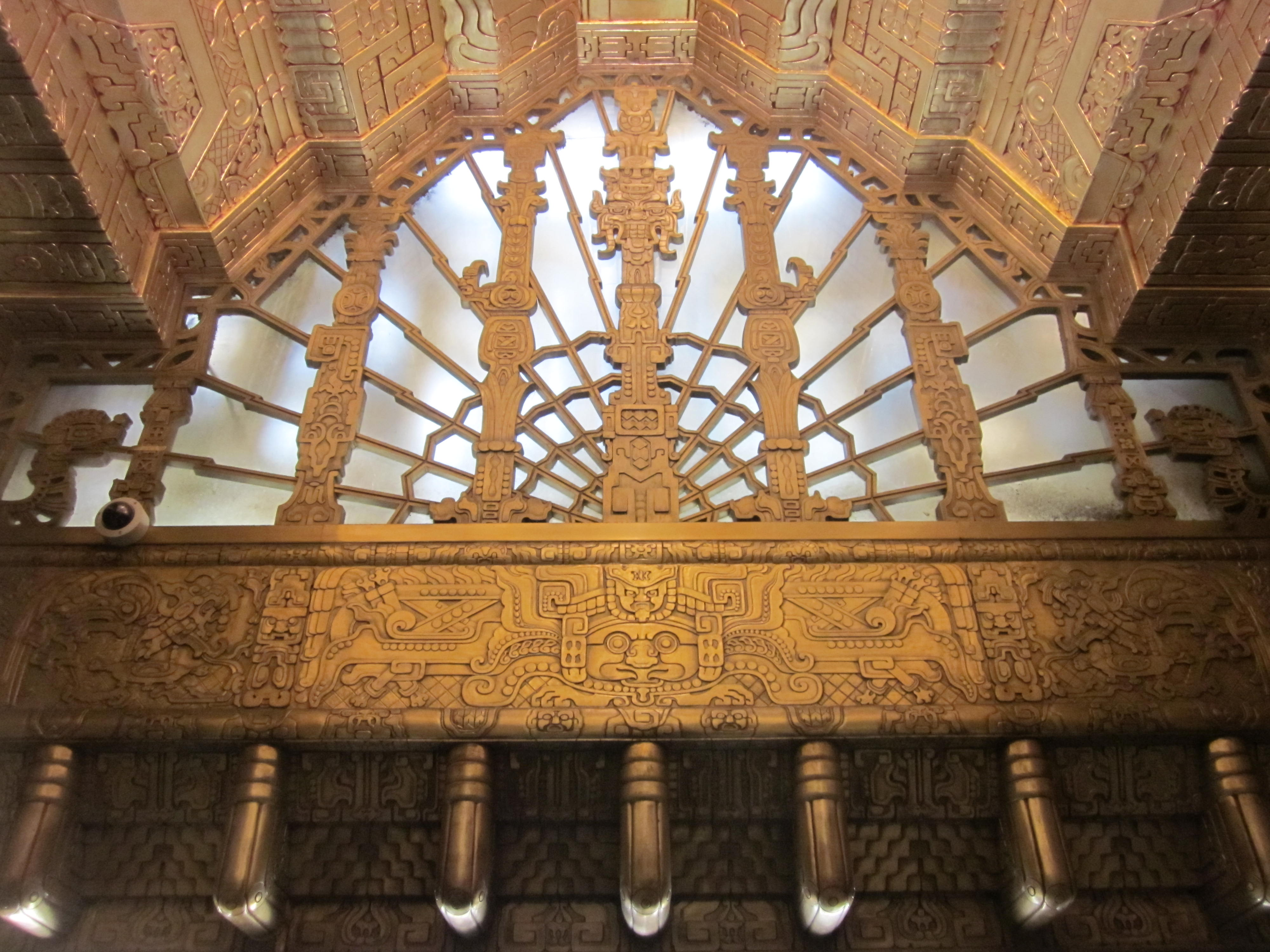 The lobby of 450 Sutter Street in San Francisco, California.